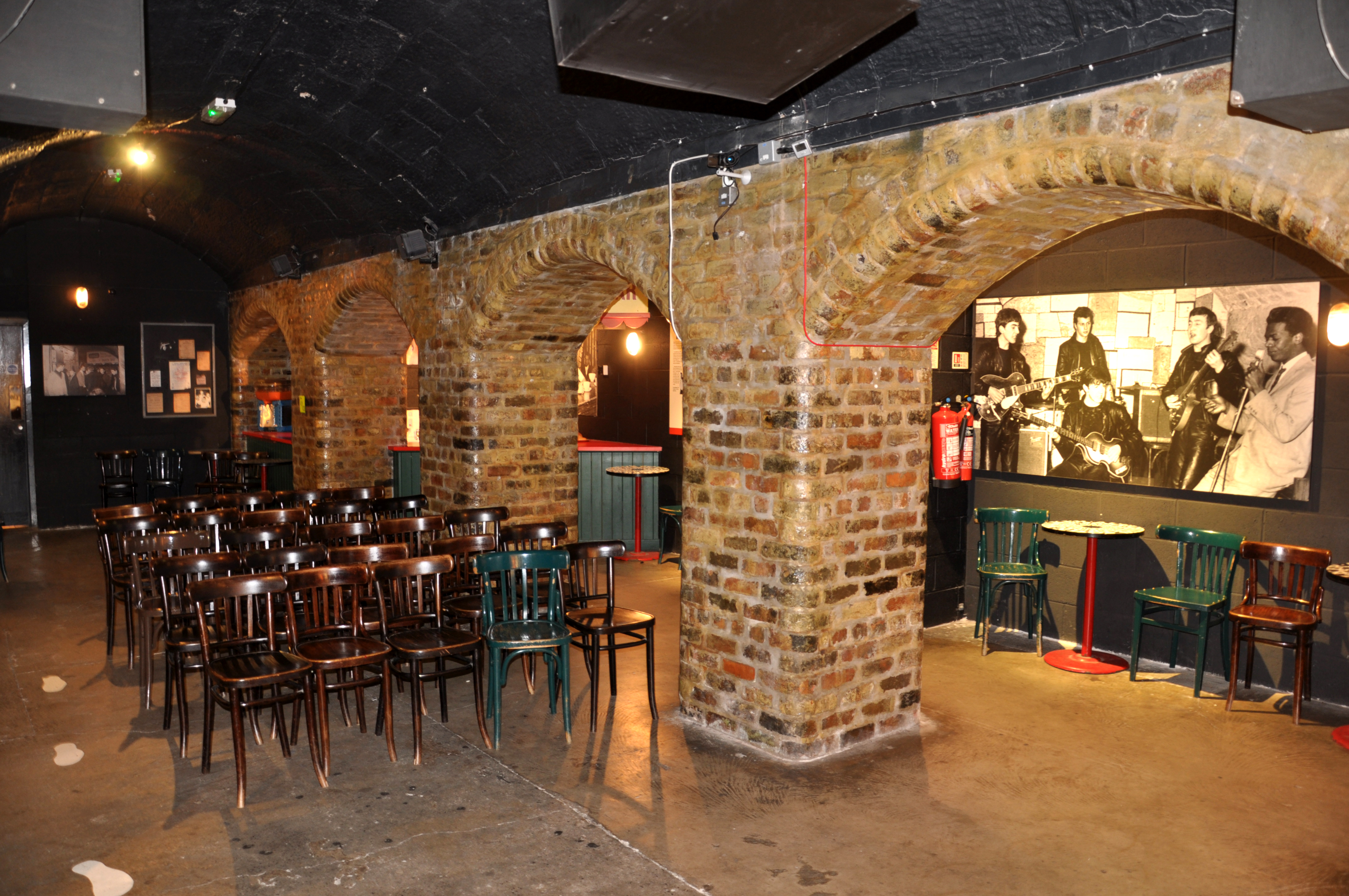 The Cavern replica of the Beatles Story museum